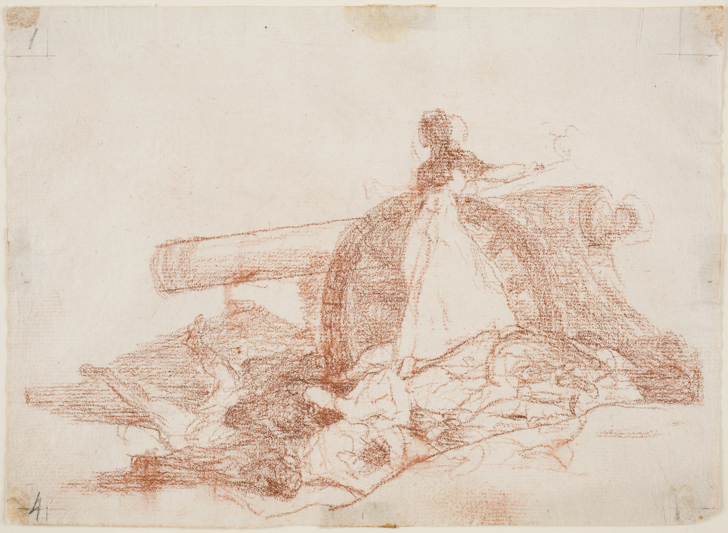 Los desastres de la guerra, preparatory drawing, plate No. 07